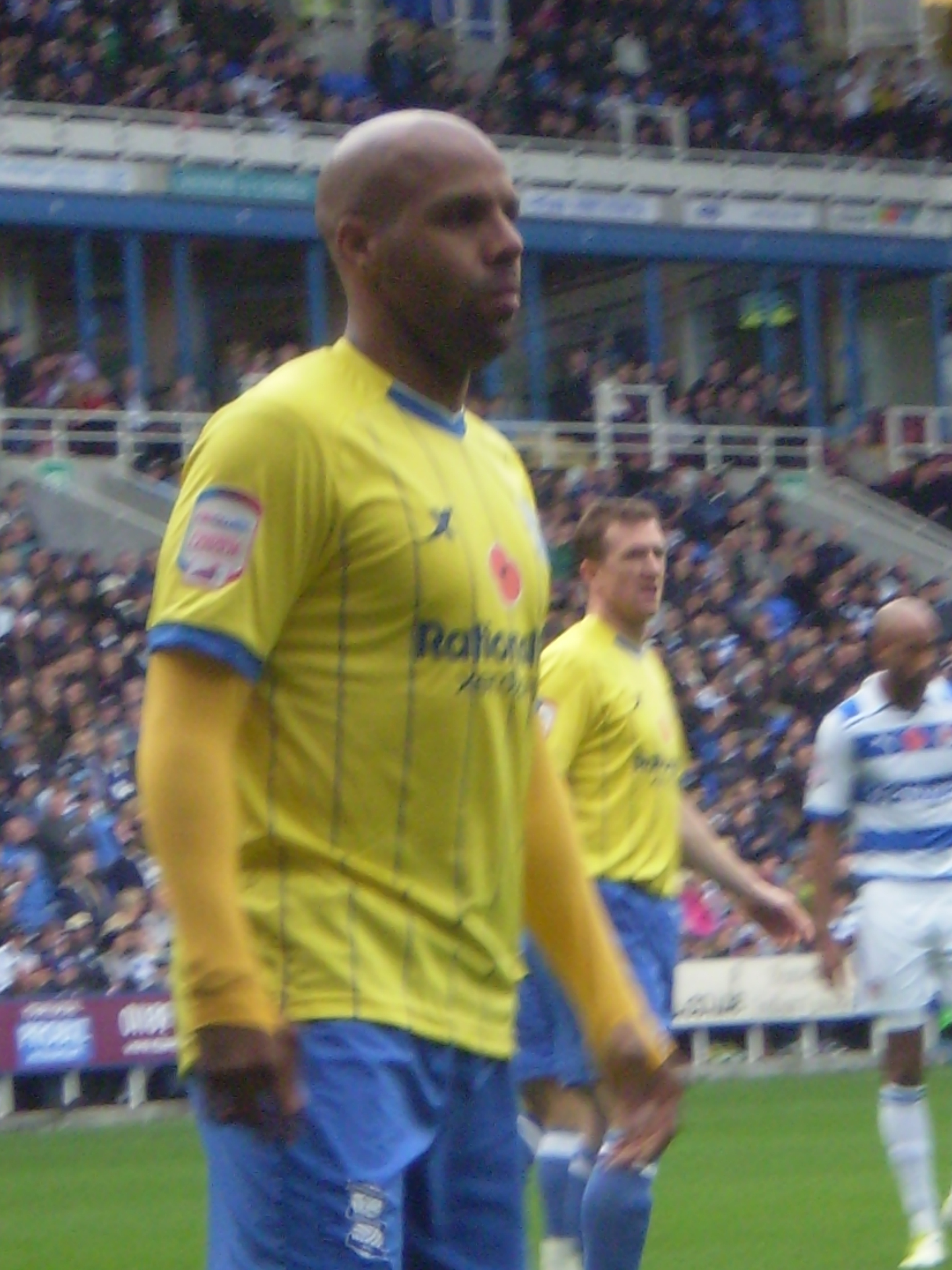 Marlon King playing for Birmingham City away at Reading in November 2011